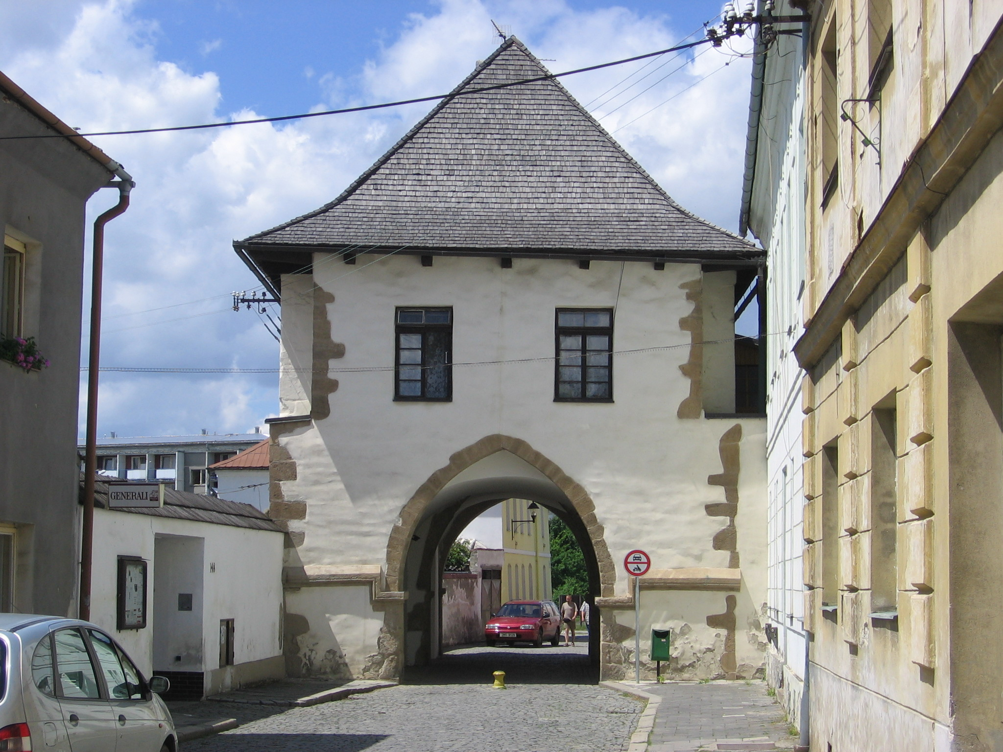 Medel Gate in Uničov (Czech Republic)